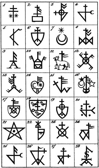 Selection of merchant's marks of mediaeval merchants of the City of Norwich, drawn by William Ewing, "Notices of the Norwich Merchant Marks," Norfolk Archaeology, vol.3, 1852. plate 1